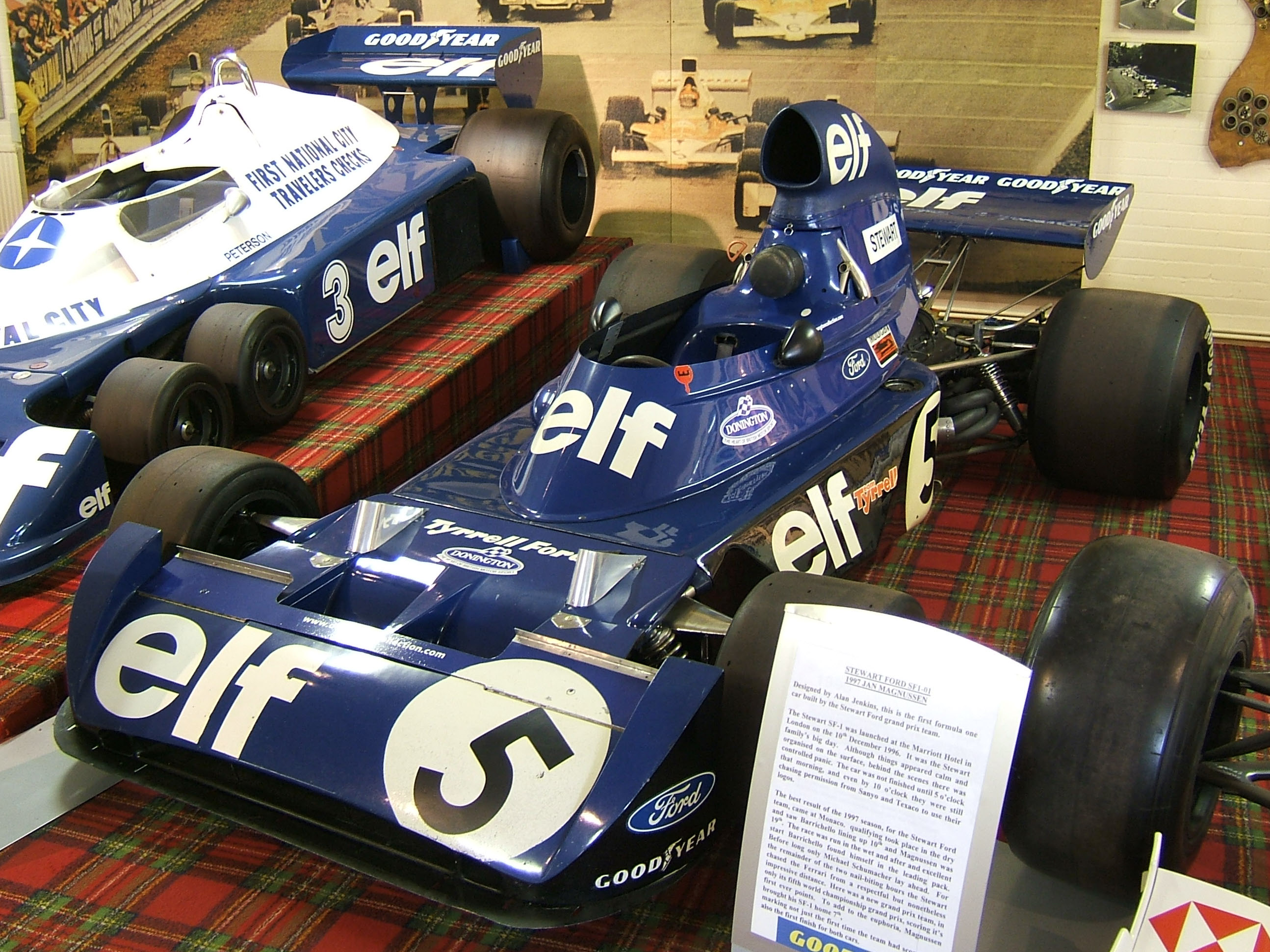 Jackie Stewart's Tyrrell 006, chassis #006/2, sits alongside a Tyrrell P34 in the Donington Grand Prix Collection museum, Leics., UK